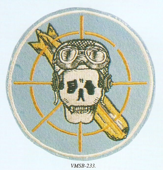 Scanned from *Crowder, Michael J. (2000). United States Marine Corps Aviation Squadron Lineage, Insignia & History - Volume One - The Fighter Squadrons. Turner Publishing Company. ISBN 1-56311-926-9.